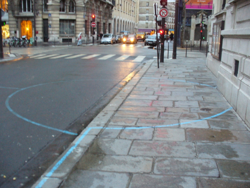 Drawing on the ground of a tower of the Tour du Temple, Paris 3°